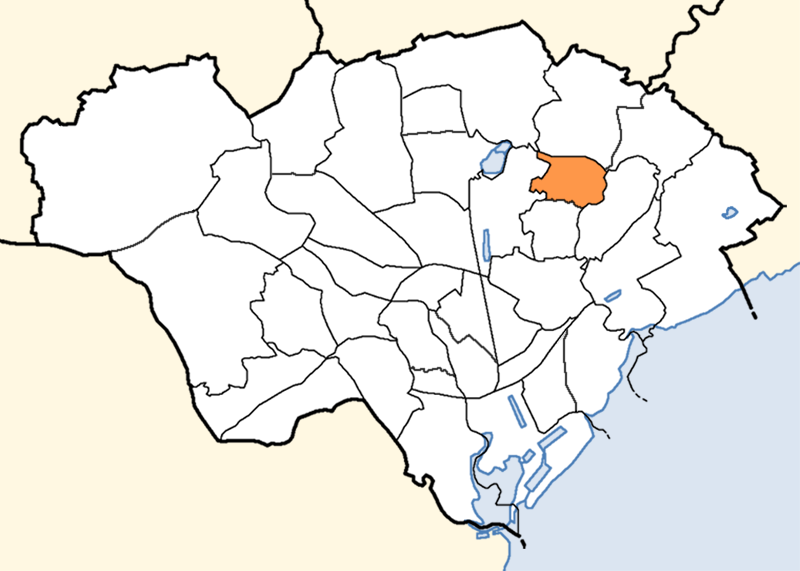 Location map of the community of Pentwyn (post-2016) in Cardiff, Wales. The southern part of the Pentwyn community became a separate community of Llanedeyrn in 2016.